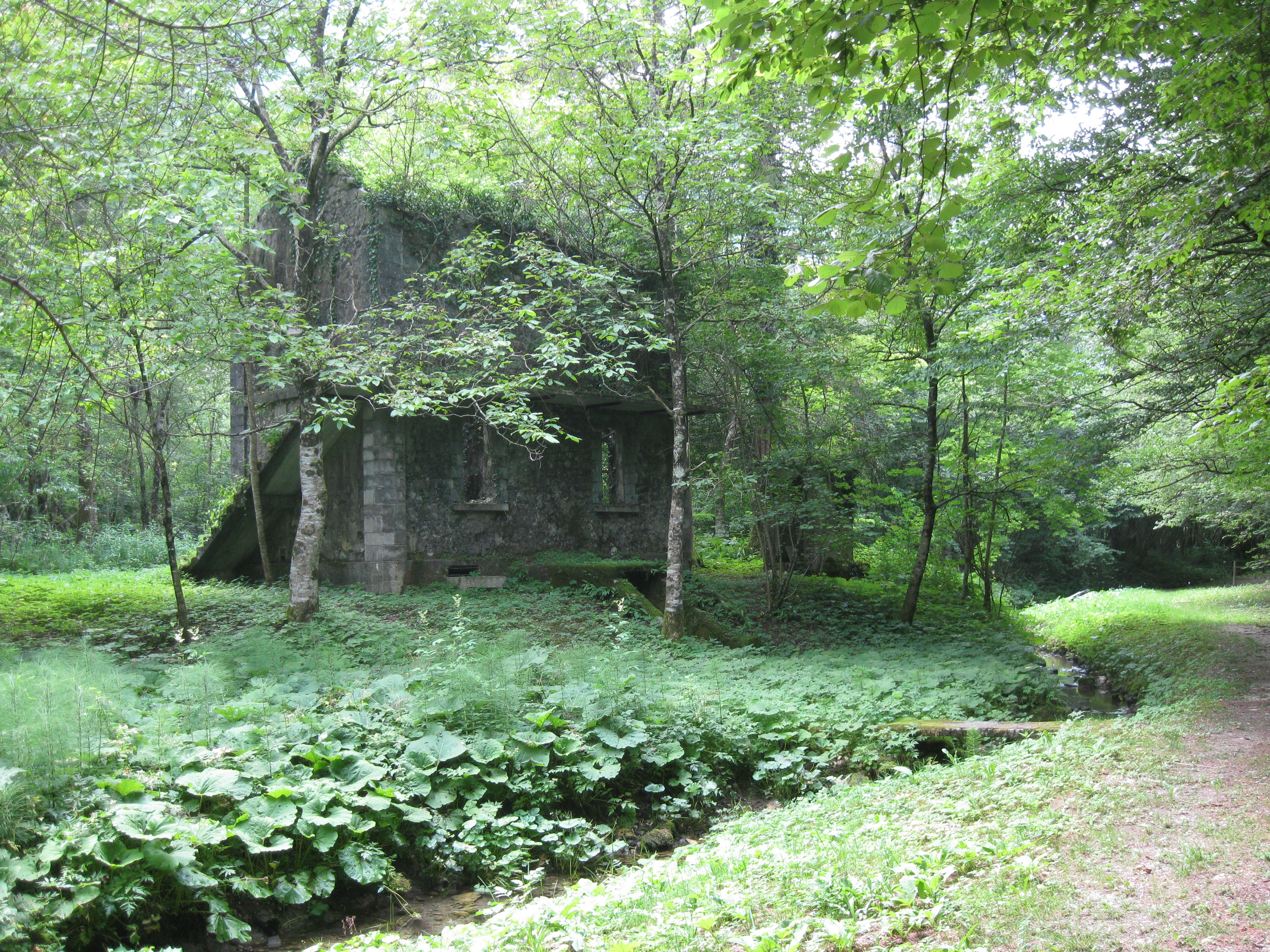 Disused train station in Poiana, Italy